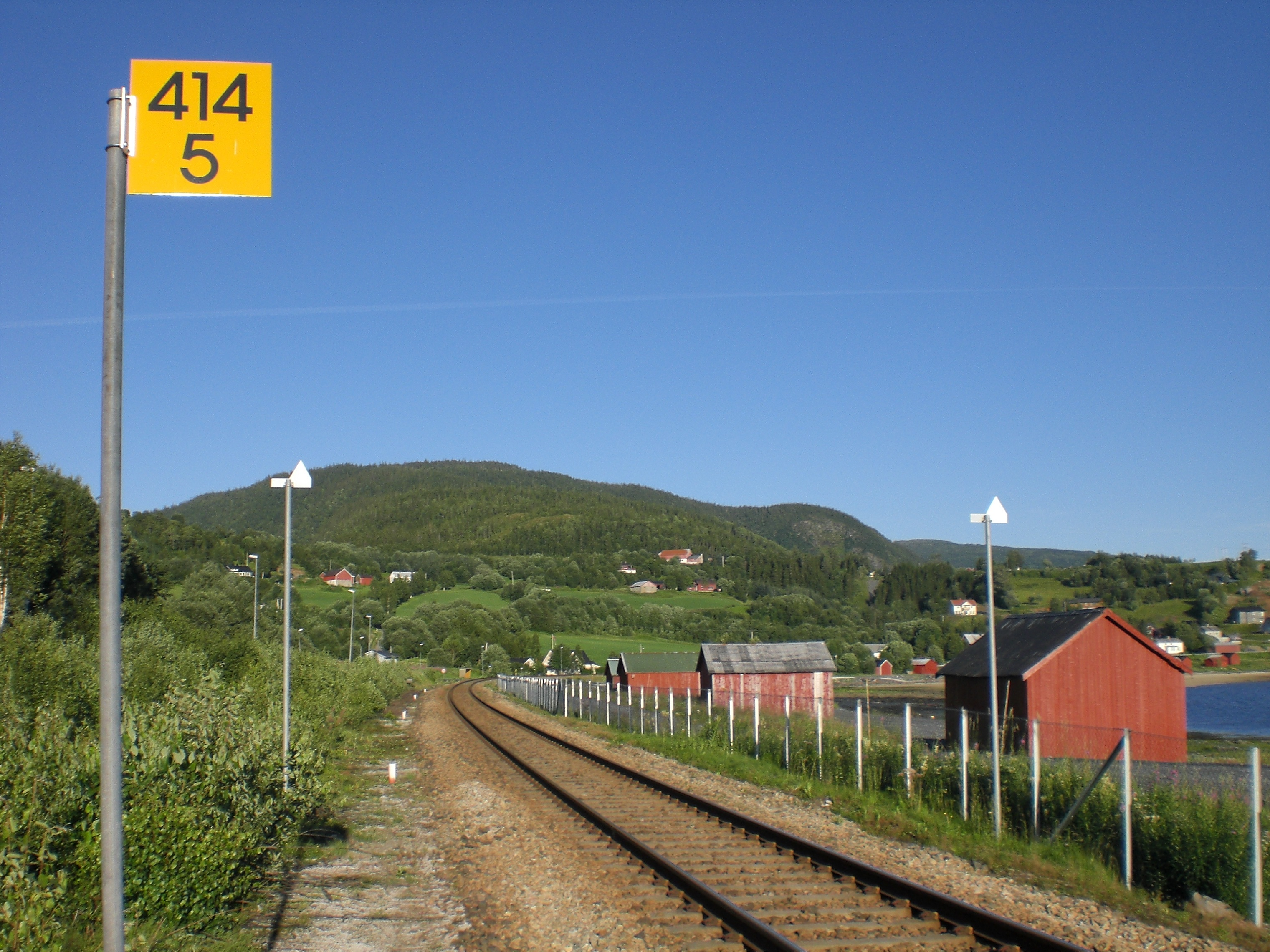 Søfting in Vefsn.